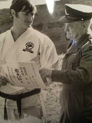 Paul Starling Shihan and his father Lieutenant Colonel Noel George Reid Starling with Examination Certificate for Shidoin from Grandmaster Gogen Yamaguchi